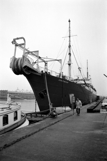 John W MacKay The graceful lines of a cable ship with the characteristic bow sheaves. The latest generation cable ships lack these and do it all from the stern. I really cannot remember where in west India Docks she was moored. The scenery has changed so much I suspect there's nothing left except the quaysides and the water.